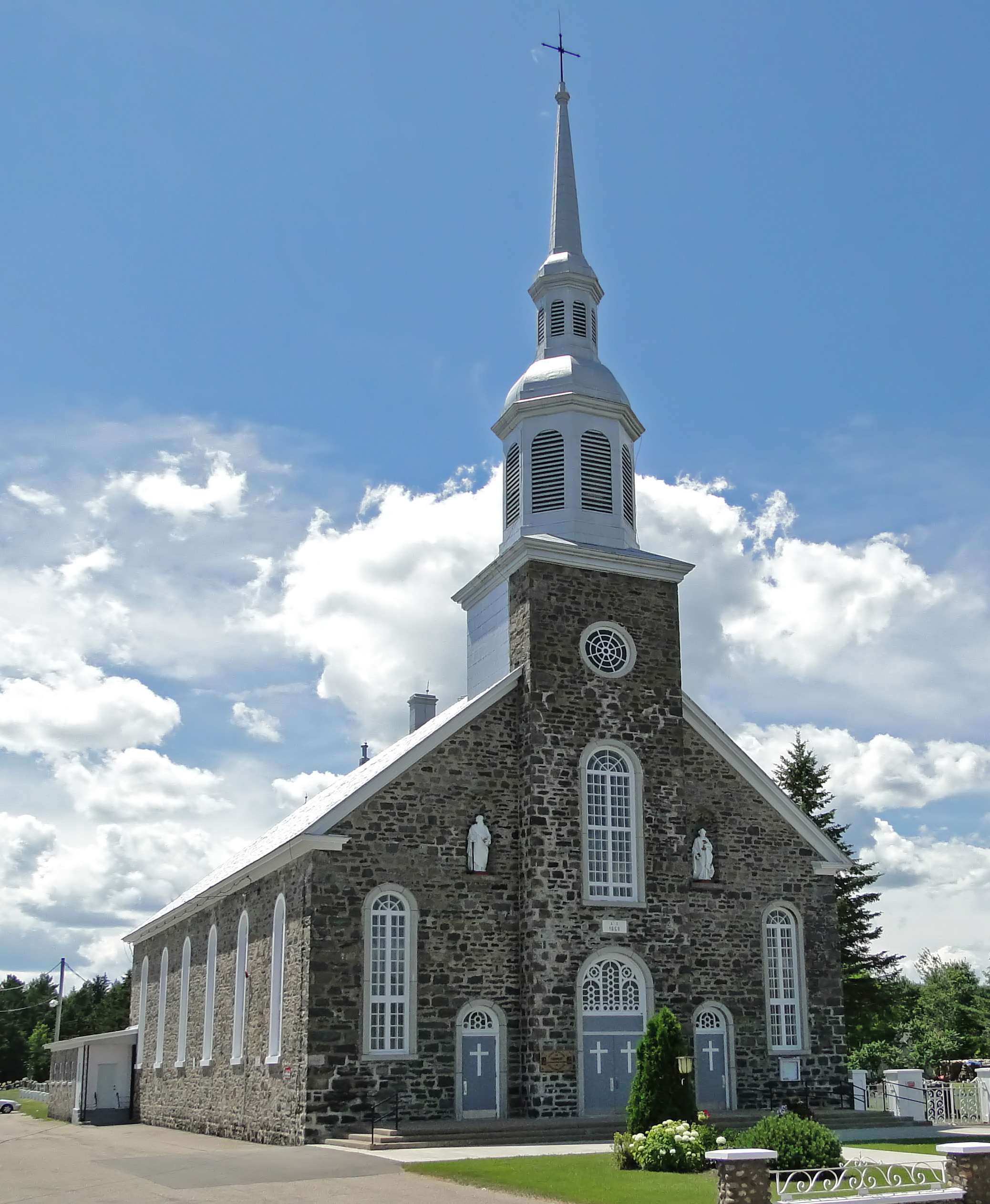 Saint-Etienne Church (1868) in Saint-Étienne-des-Grès, Quebec, Canada